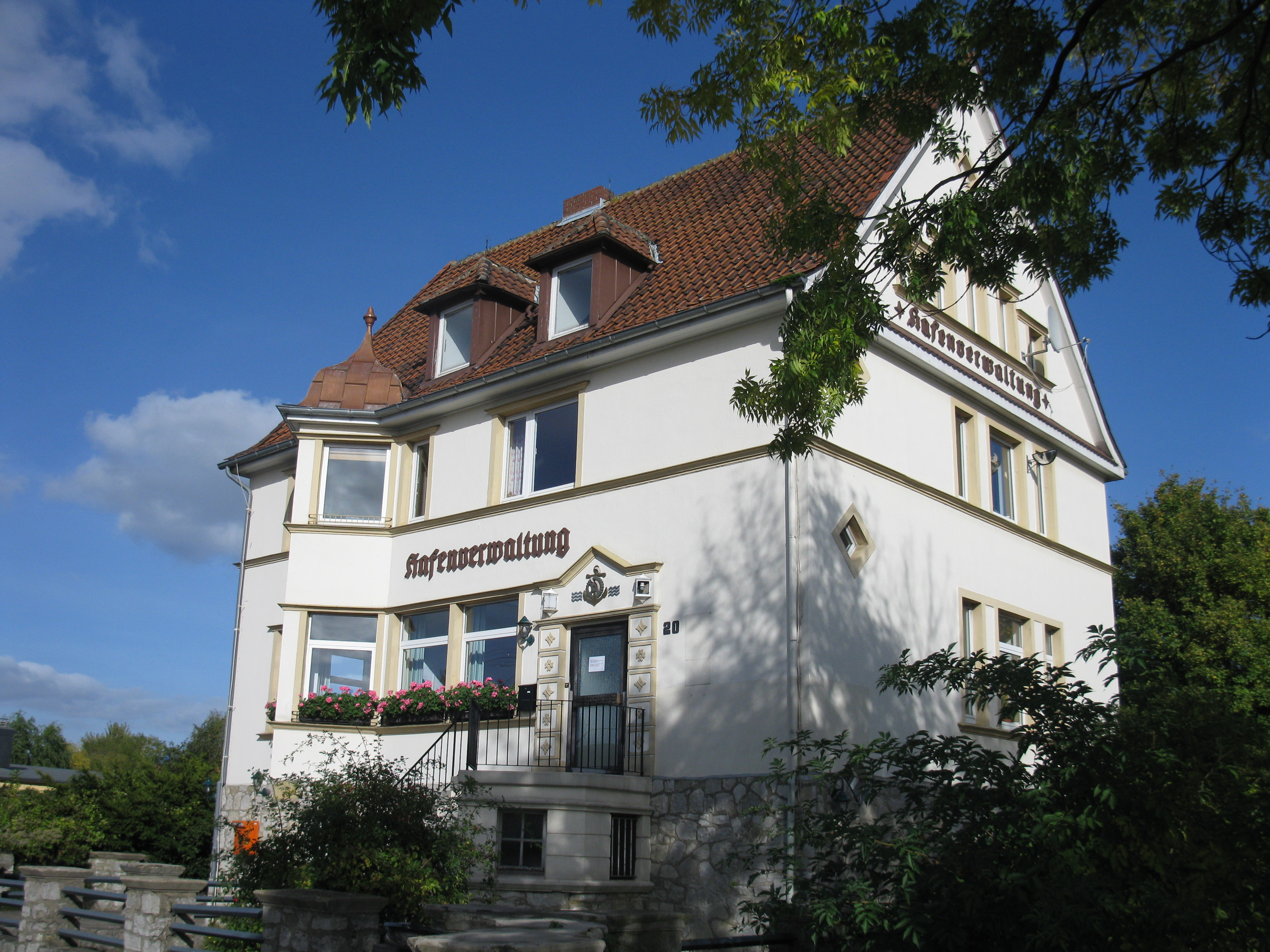 Administration building, inland harbour, Steuerwald, Hildesheim